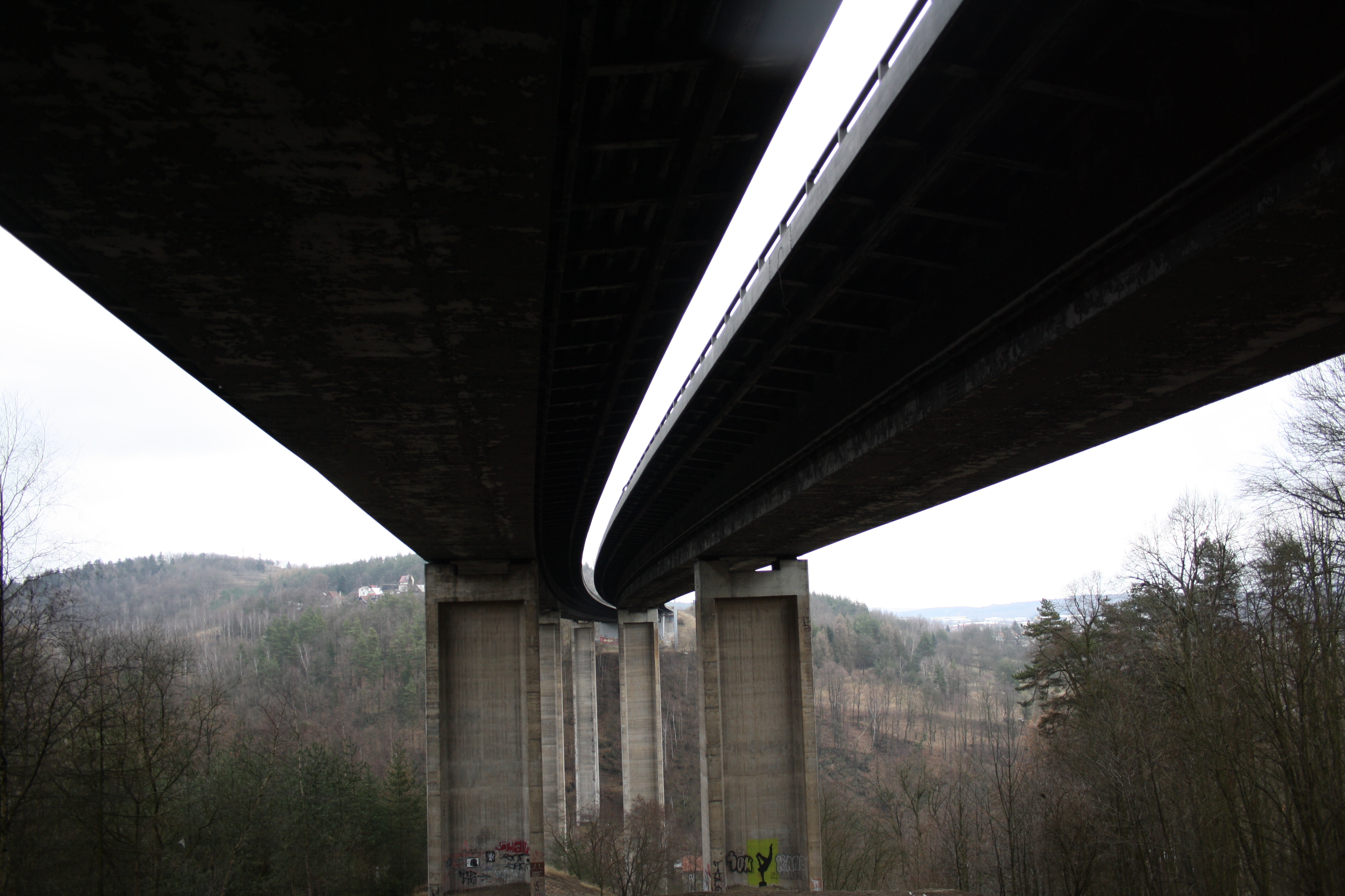 Pillars and downview to Vysočina Bridge.